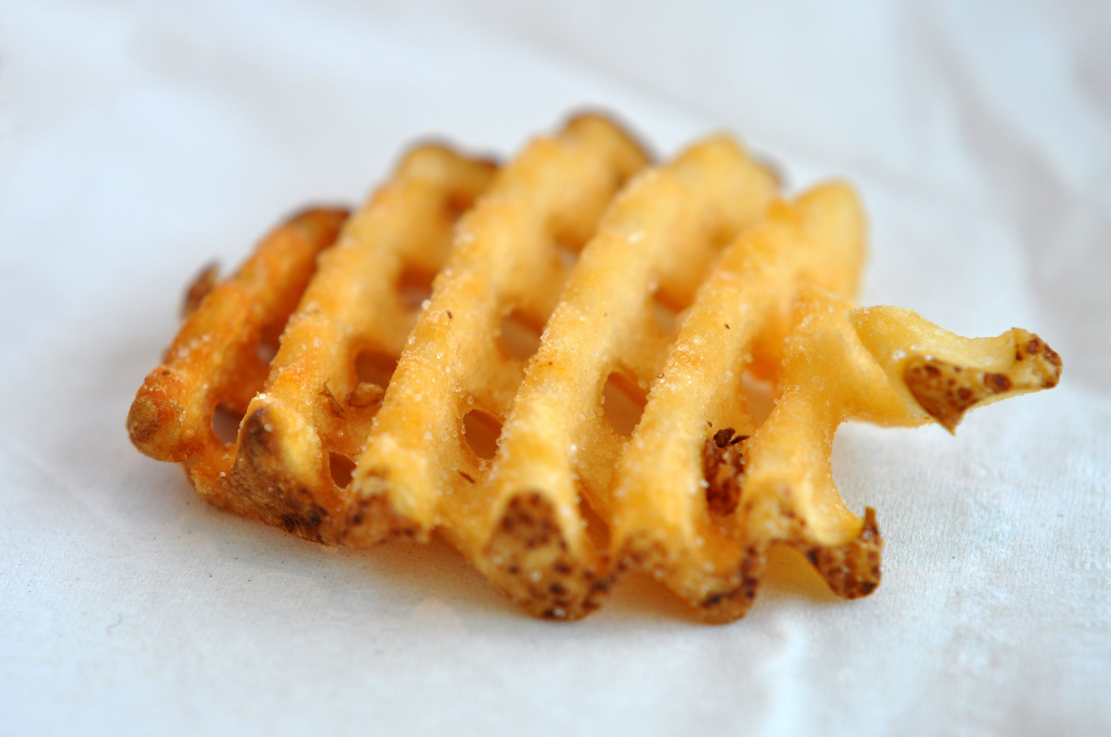 (best viewed large) Grease? Potatoes? Salt? From Chick-fil-A, three of my favorite mistakes, all wrapped in one. I didn't include the buttermilk ranch dressing, or else it would have been even more unhealthy. I love their waffle fries. They're just sooooo good. This batch was a little saltier than normal, and as I had just recently picked up the close-up filter kit, I wanted to see how well it captured the little details. I was quite pleased with the results. Taken with a 50mm lens and an x4 Quantaray close-up filter. This photo free for use under a Creative Commons copyright (see link for details).If you have time, I enjoy it when I am left a note saying where the picture was used.